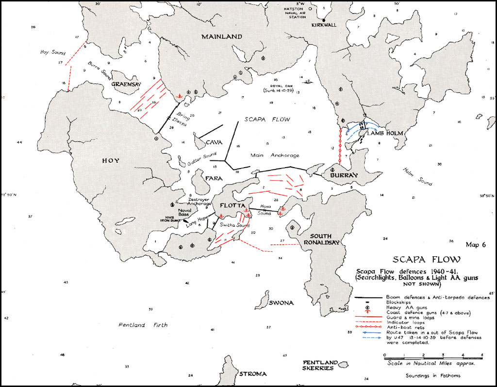 Scapa Flow defences 1940-41